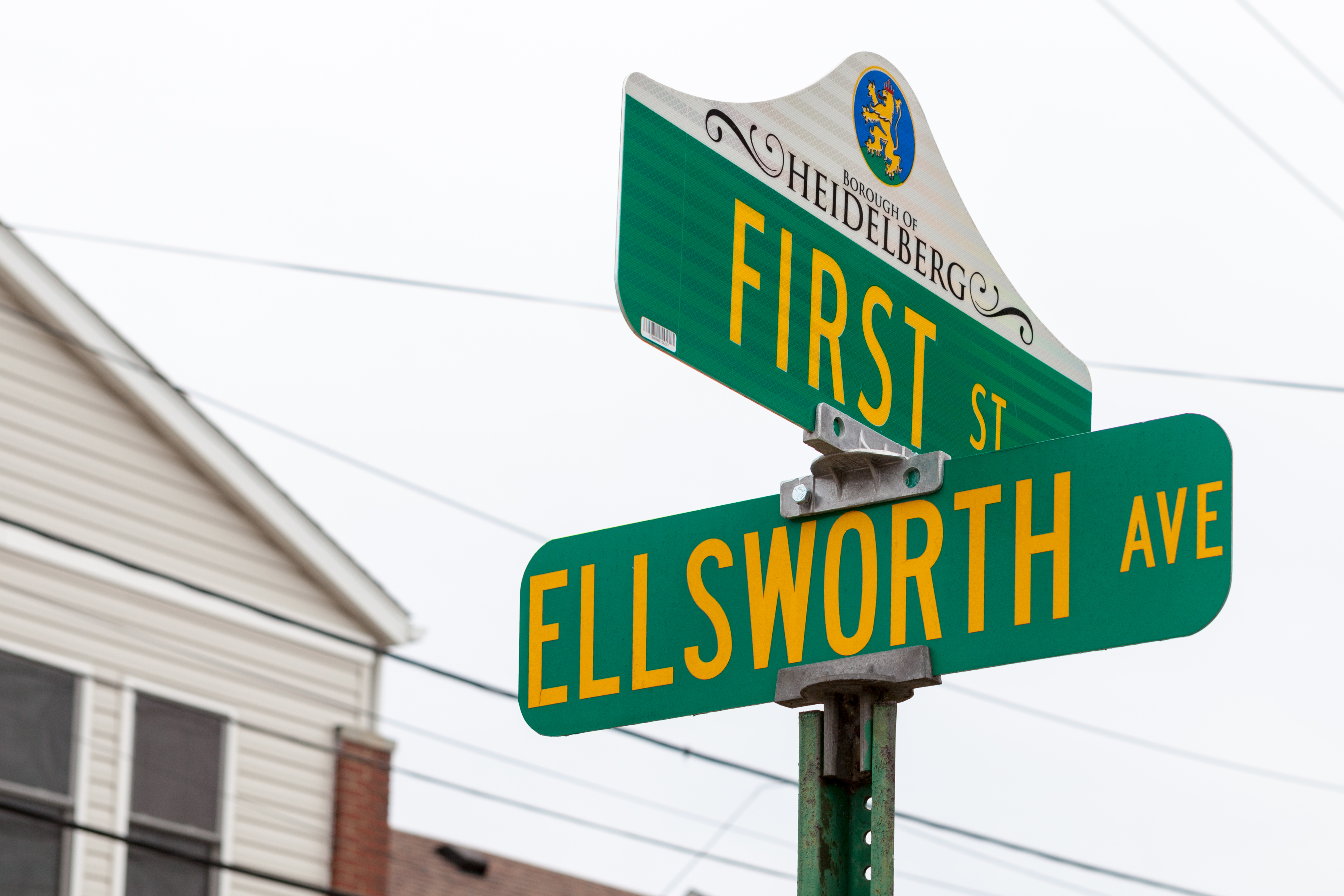 Street sign in the borough of Heidelberg, Pennsylvania